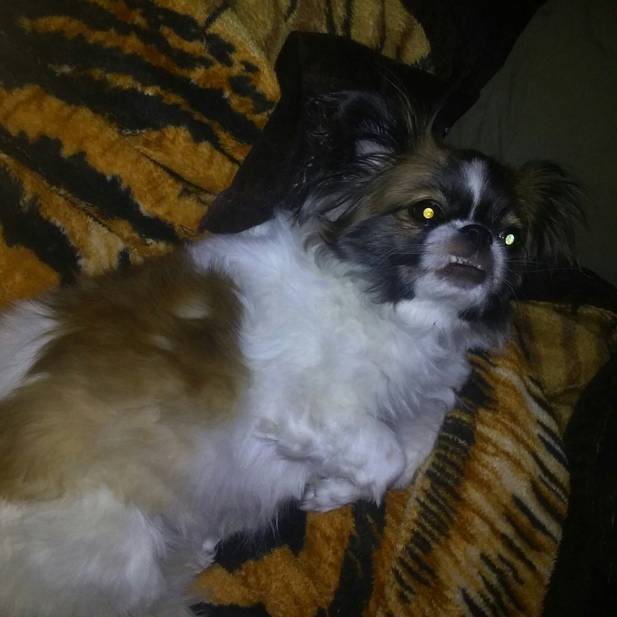 Dog Night Vision